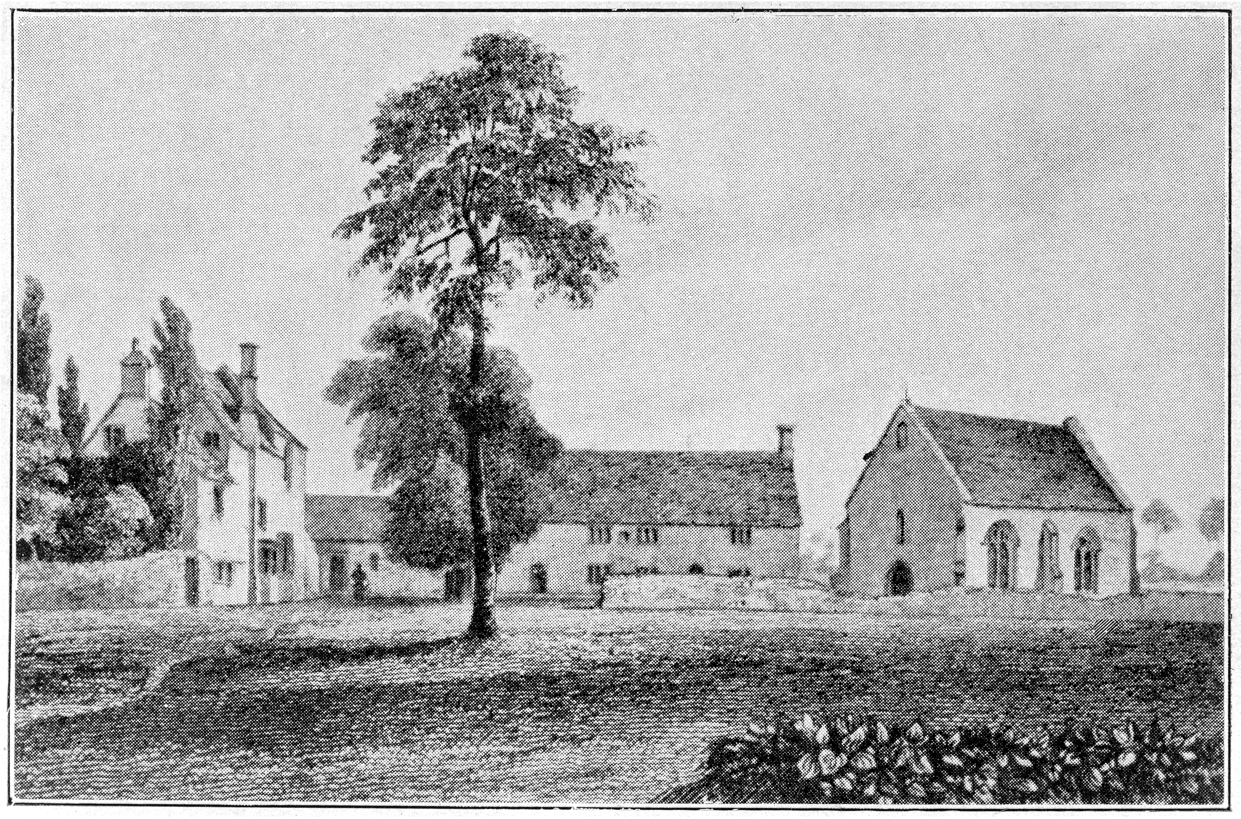 Old leper Hospital of St. Bartholomew, Oxford. Wellcome Images